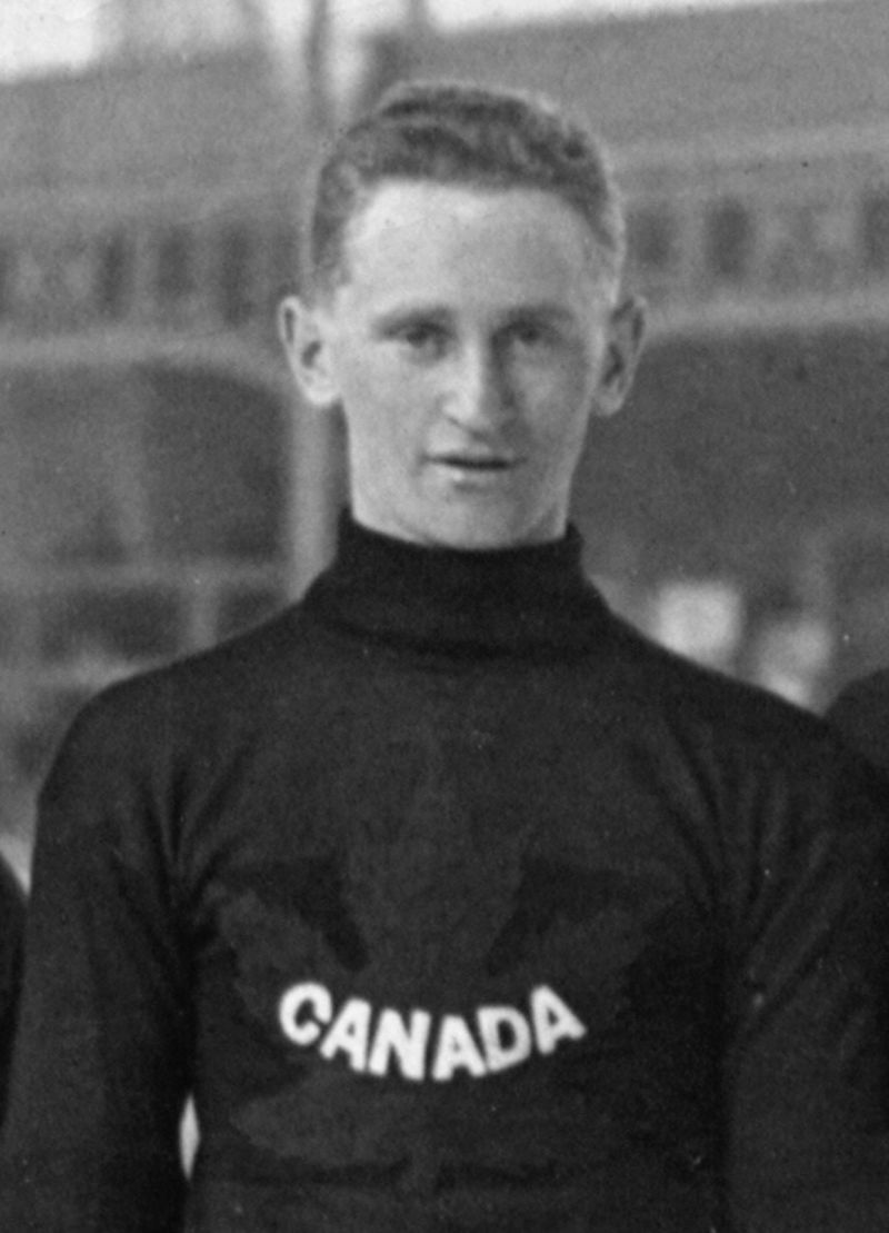 Ice hockey player Chris Fridfinnson of the Winnipeg Falcons representing the Canadian national ice hockey team at the 1920 Summer Olympics in Antwerp, Belgium. The picture is a crop out of a larger team photo taken inside the ice rink Palais de Glace d'Anvers. The ice hockey tournament at the 1920 summer Olympics took place between April 23 and April 29. The canadian team won gold medals at the games.